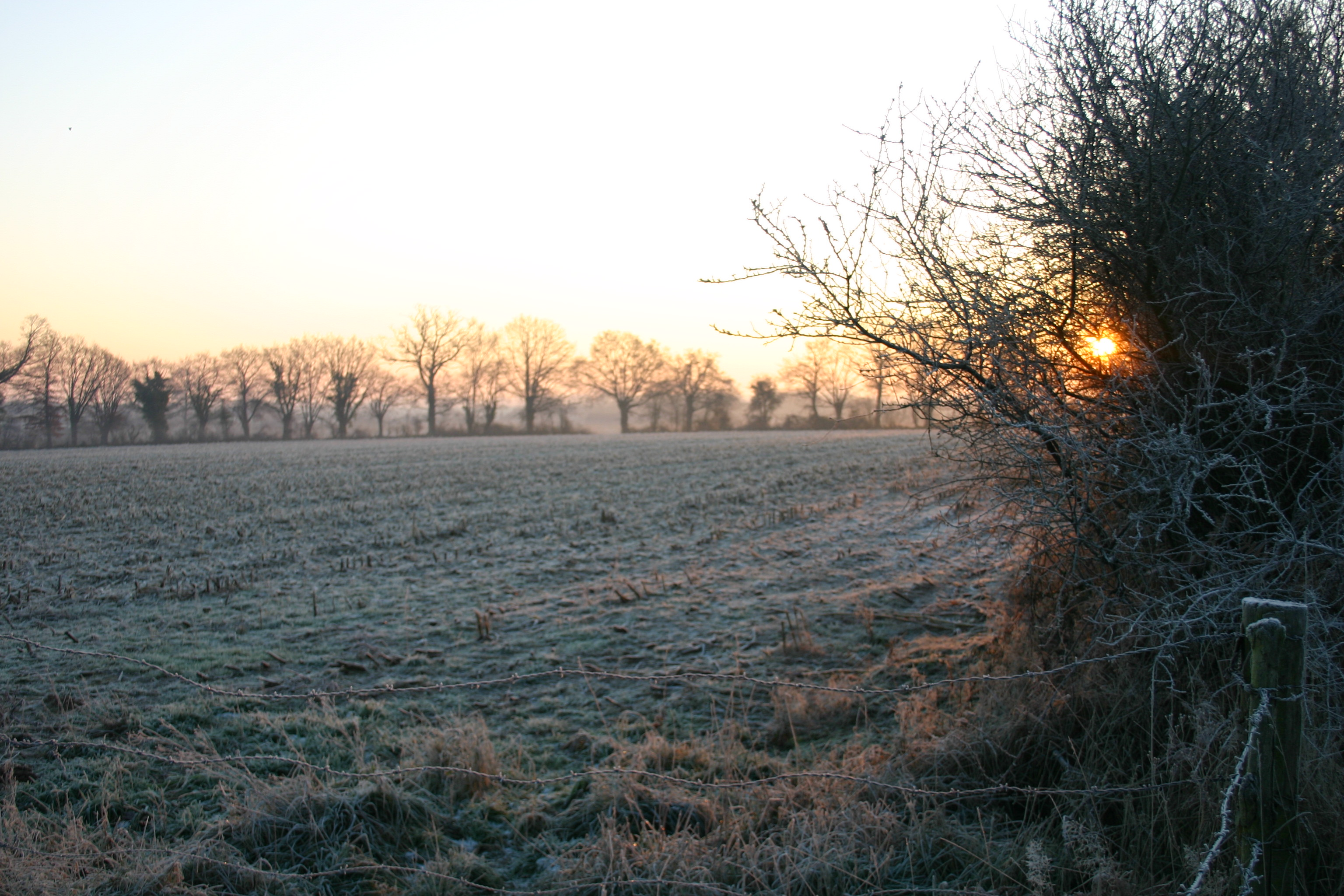 Field in December, Mayenne, France.